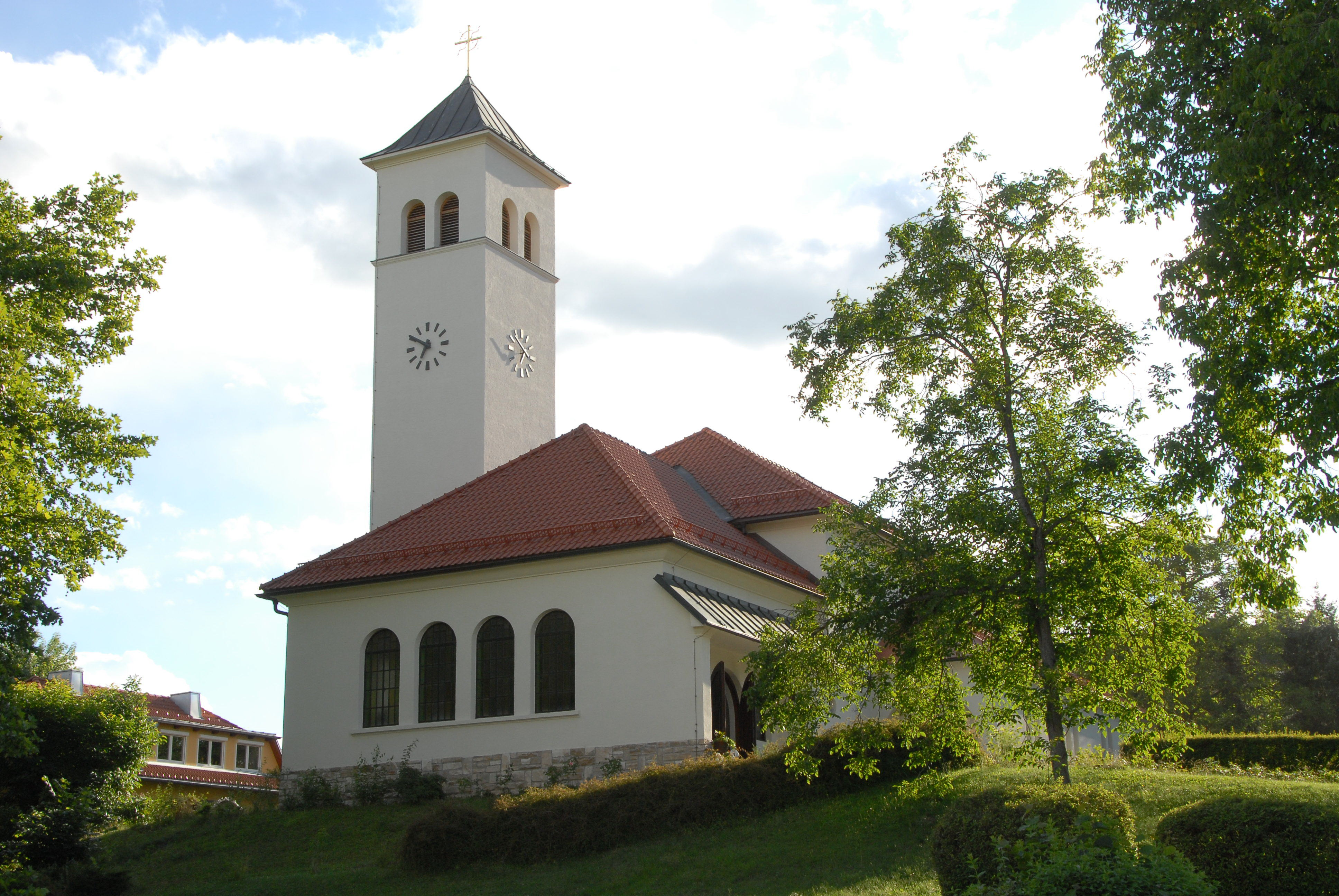 Roman Catholic parish church Our Lady, Kirchenstrasse #23, market town Velden am Wörthersee, district Villach Land, Carinthia, Austria, EU